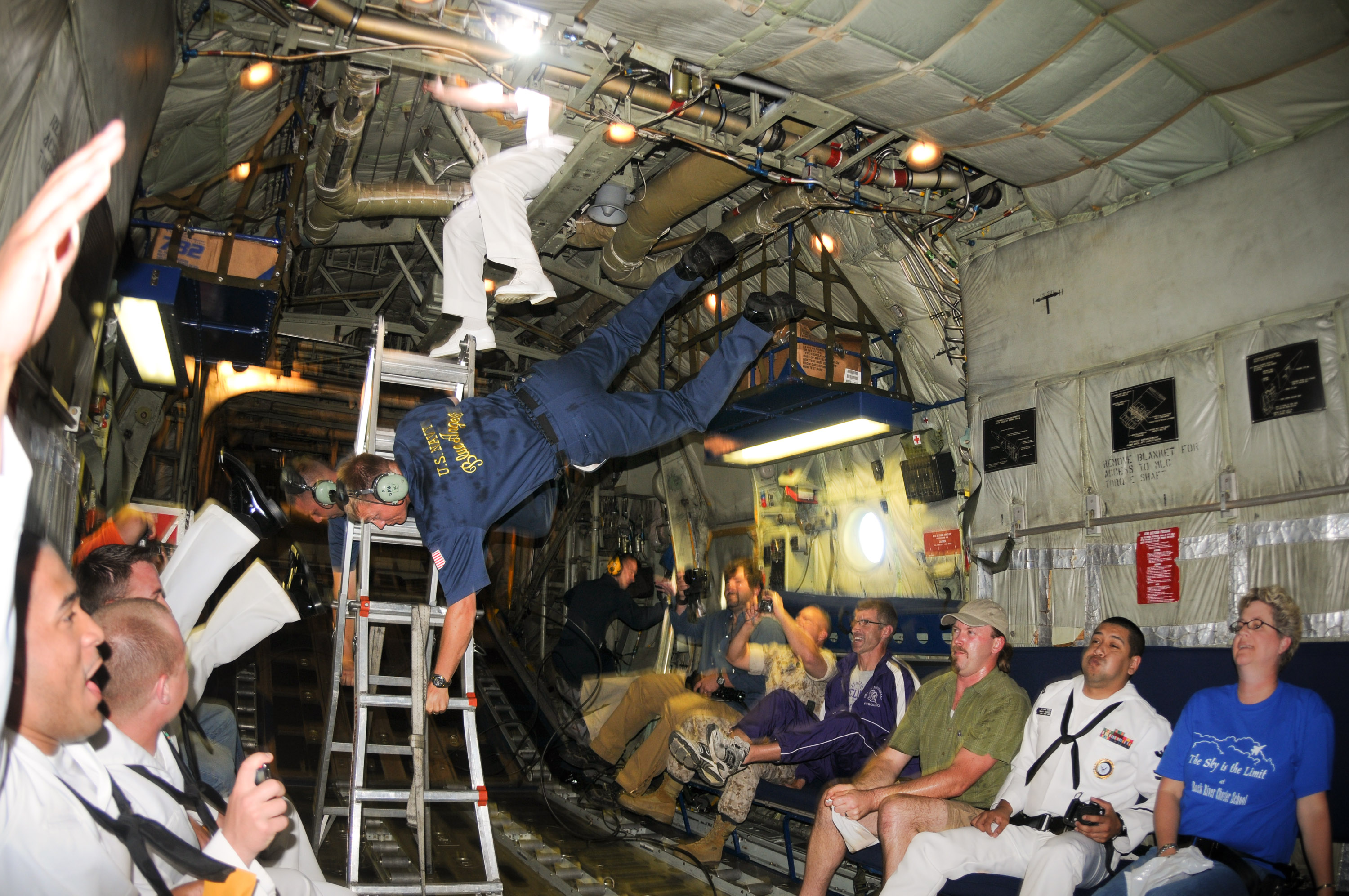 BELOIT, Wis. (May 30, 2009) Crewmembers of the Blue Angels C-130 Hercules, Fat Albert, experience weightlessness during a flight demonstration at the Southern Wisconsin Airfest. The air show is in conjunction with Rock County Navy Week, one of 21 Navy Weeks planned across America in 2009. Navy Weeks are designed to show Americans the investment they have made in their Navy and increase awareness in cities that do not have a significant Navy presence. (U.S. Navy photo by Mass Communication Specialist 1st Class Mark O'Donald/Released)